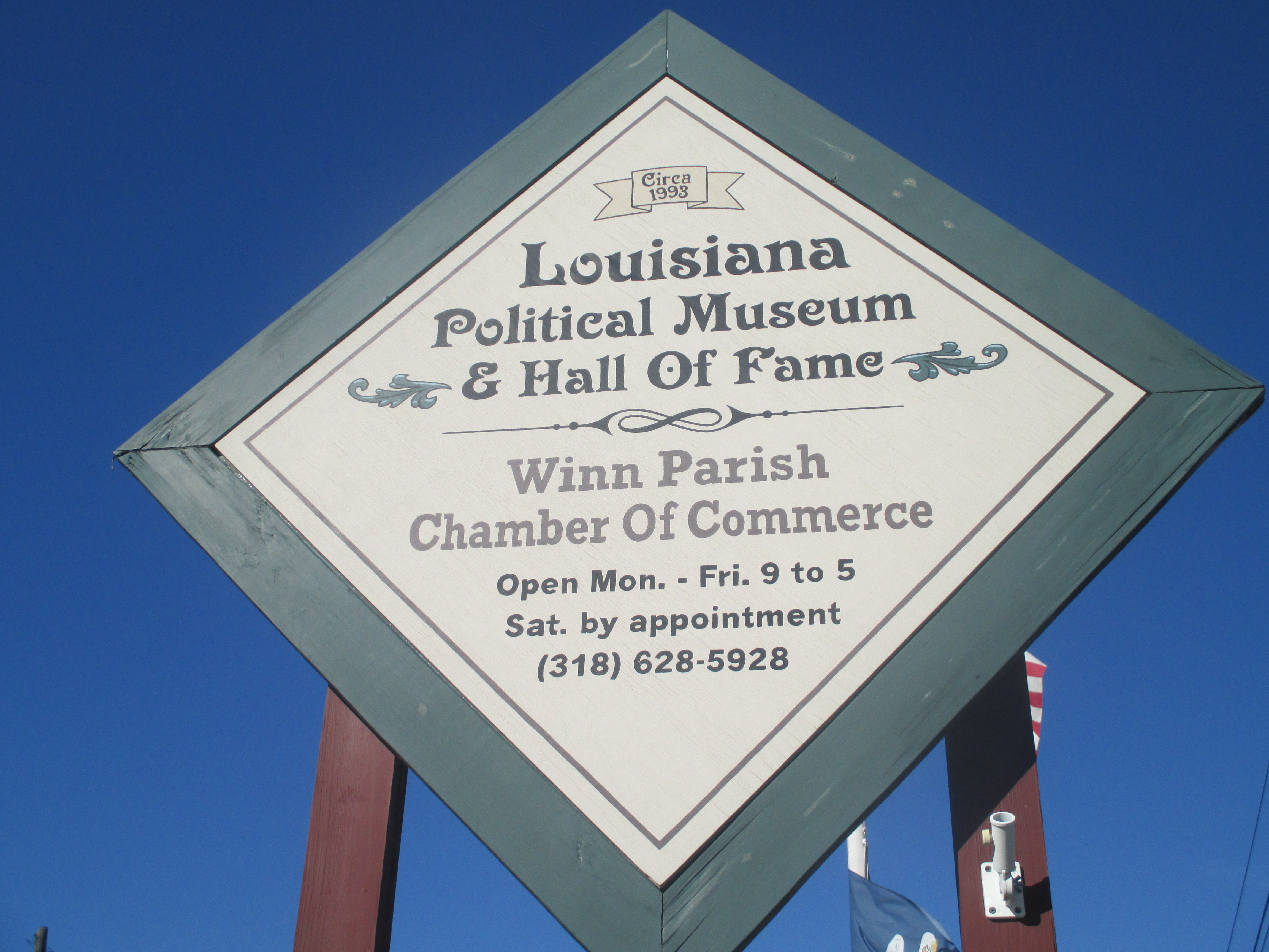 I took picture of Louisiana Political Museum and Hall of Fame sign in Winnfield, LA, with Canon camera.